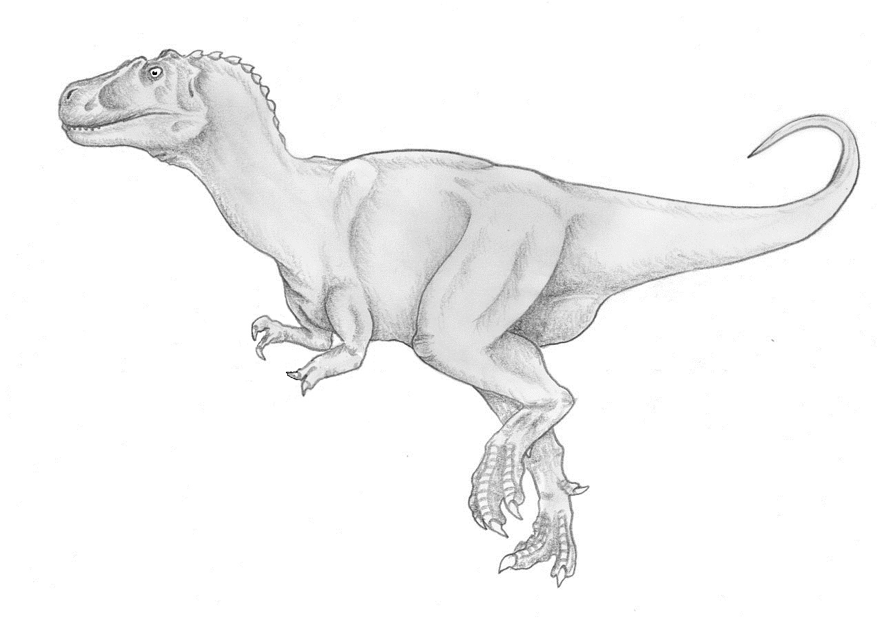 Labocania, an unusual theropod dinosaur